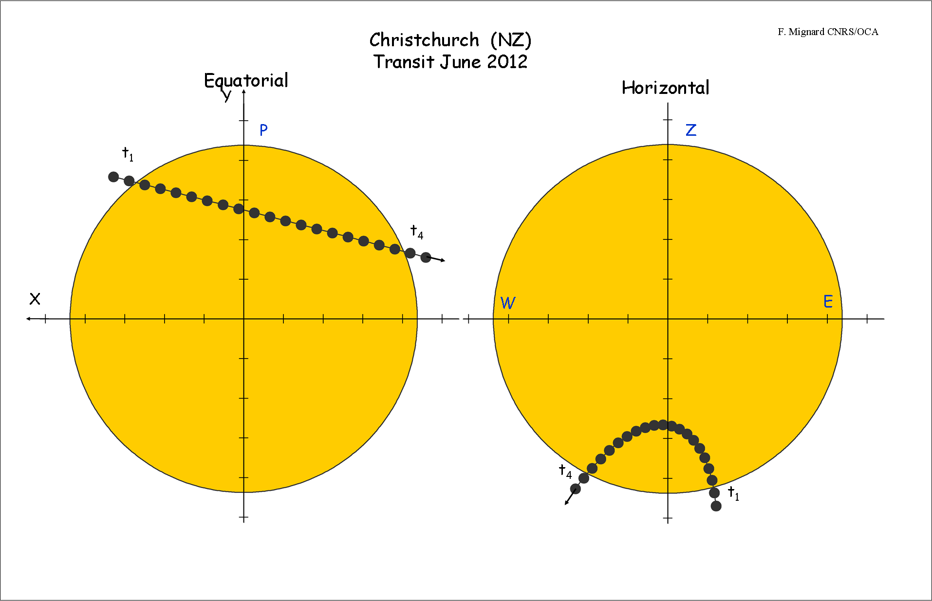 Path of Venus on the Solar disk during the transit of June 2012, for an observer located at Christchurch (NZ). Left: equatorial coordinates with the celestial north pole on the top of the diagram; right: local coordinates with the vertical on the top. The two systems are in relative rotation.